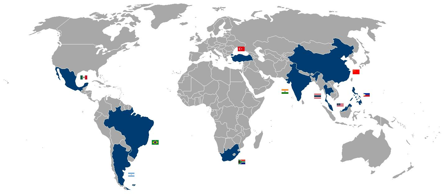 Emergent Countries